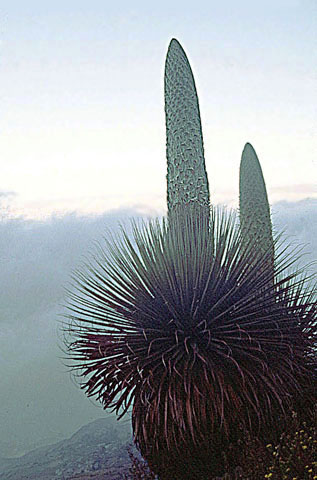 The world's largest Bromeliad, known as Queen of the Puna, or here in Bolivia as Puya Titantica. In context at